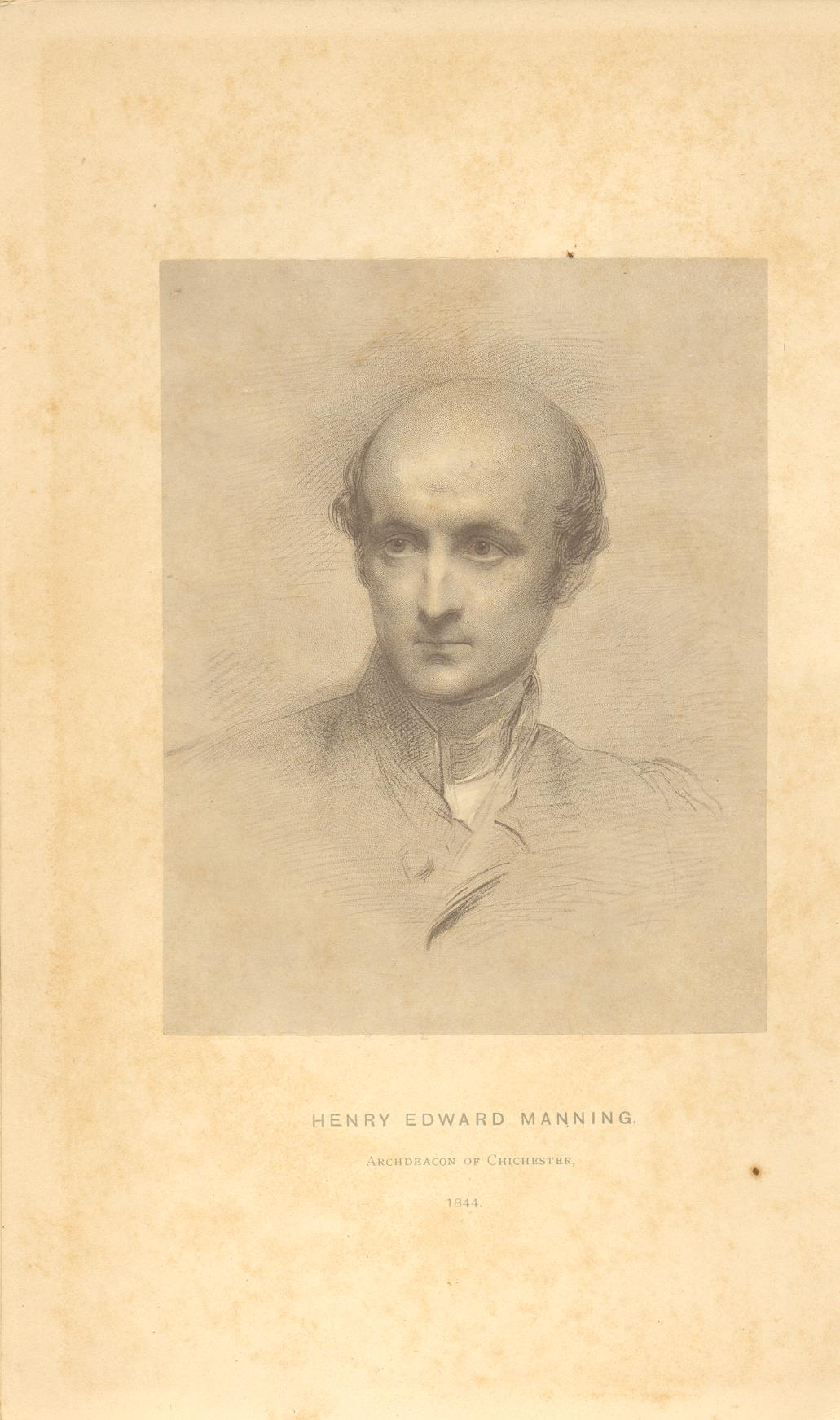 Henry Edward Cardinal Manning 1844